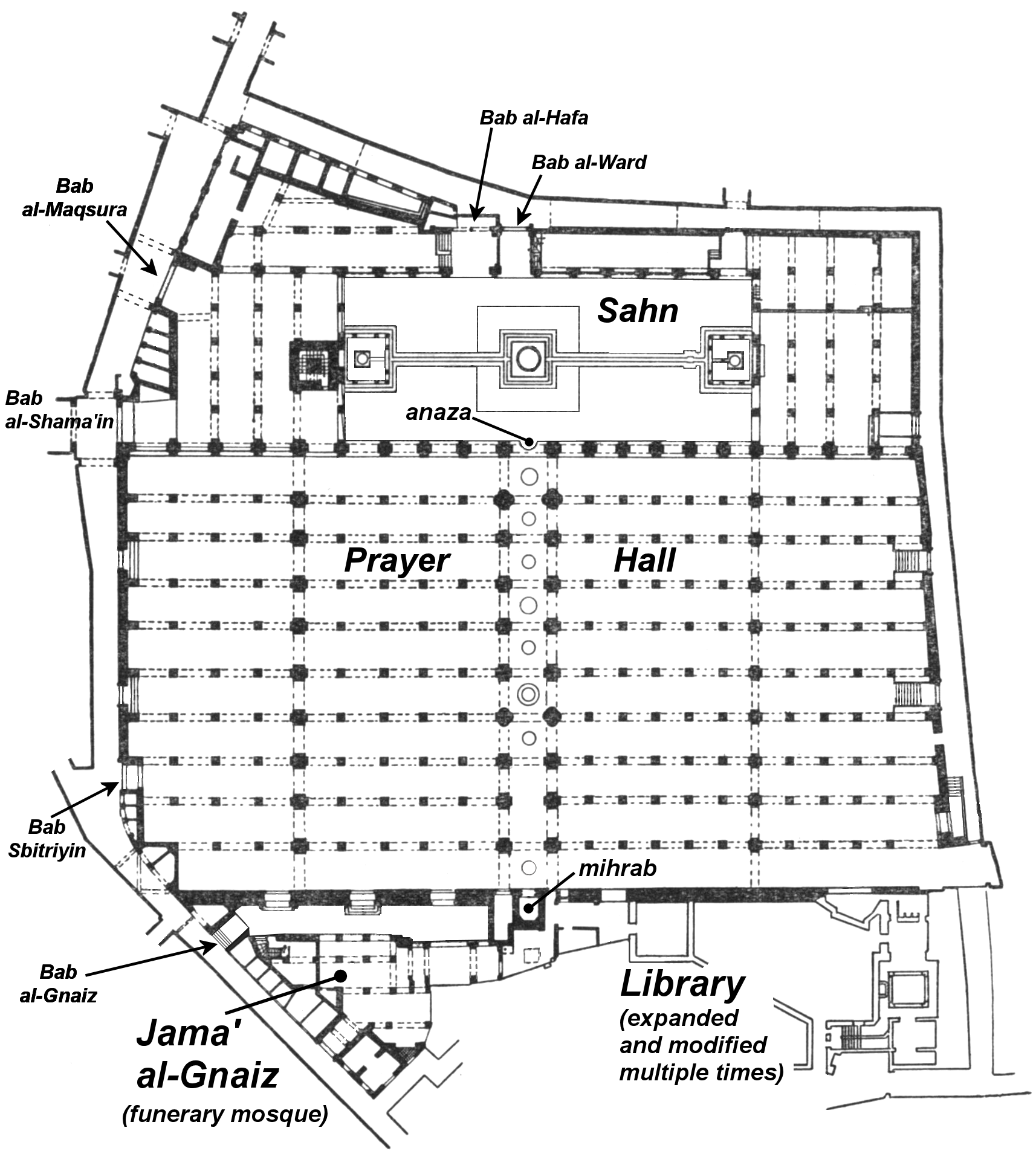 Floor plan of the Qarawiyyin Mosque, from the floor plan created by E. Pauty (Edmond Pauty, 1923, "Le plan de l’Université Qarawiyin à Fès", Hespéris, IV) and adapted and republished by a number of authors, in particular by Henri Terrasse. I took the version from Terrasse (1957, La Mosquée d'Al-Qarawīyīn à Fès et l'Art des Almoravides) and cleaned it up as best I can, plus minor changes. The floor plan does not fully reflect the most recent 20th-century additions or modifications to the mosque's outer structures (e.g. the library), but the floor plan of the mosque itself is well-established and unchanged. Labels were added according to those indicated by Terrasse.